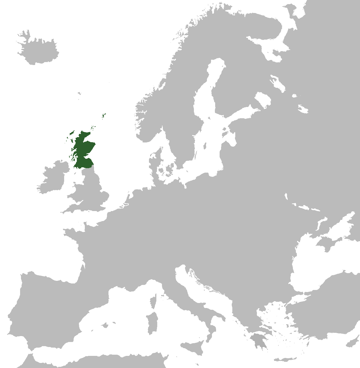 Map of the Kingdom of Scotland.